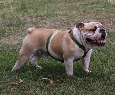 bulldog adult male